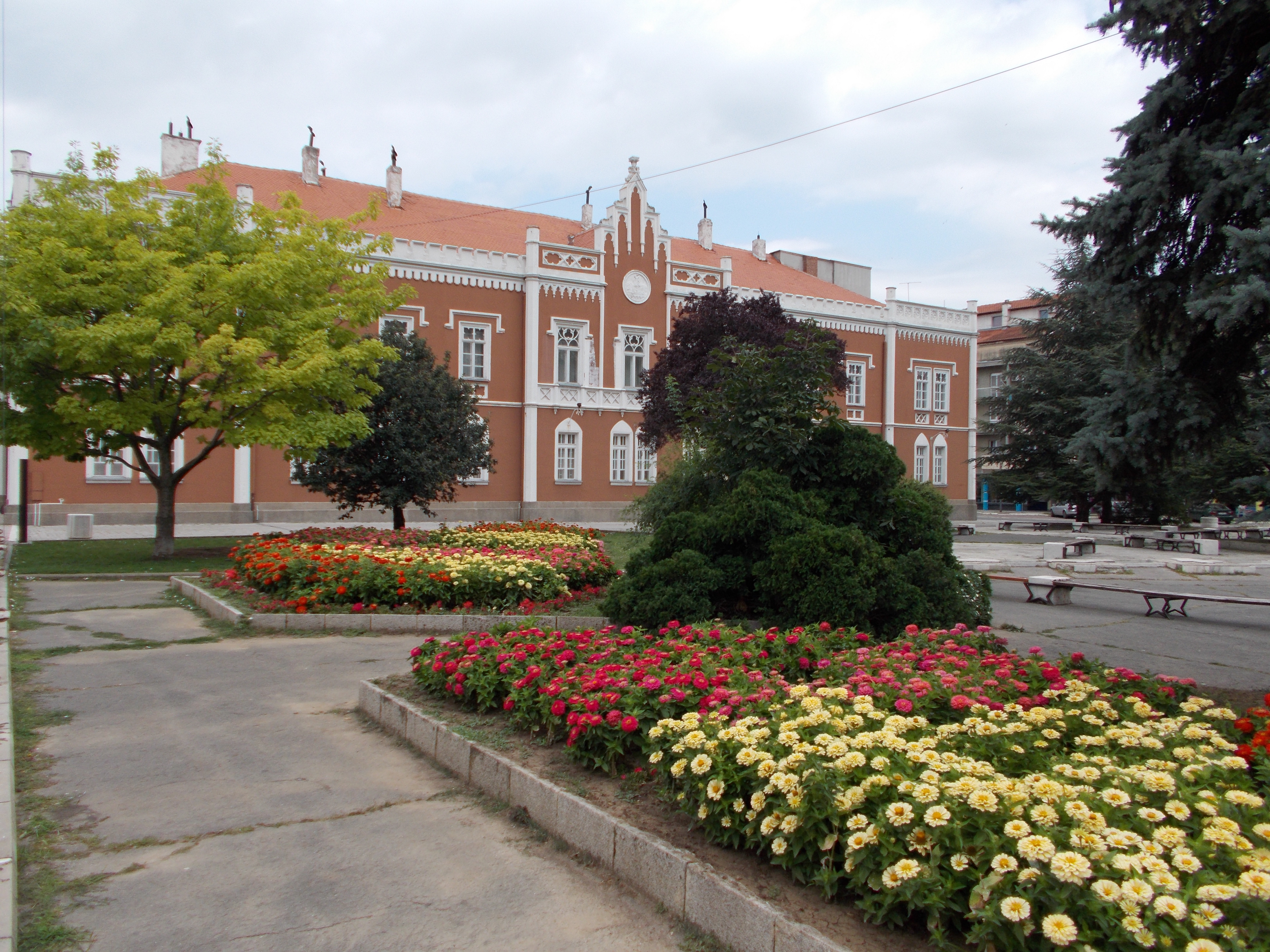 City Hall at Vrshac.